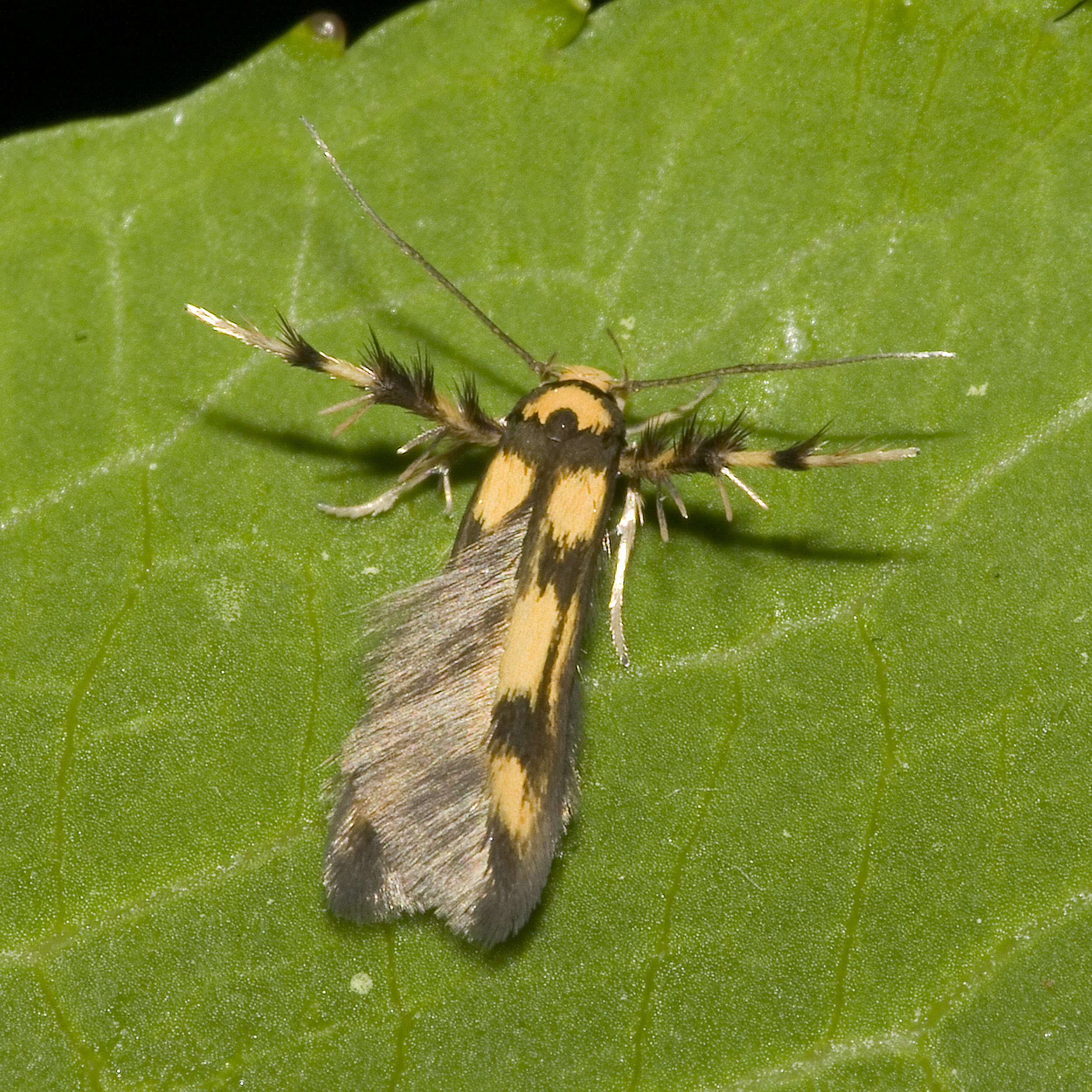 Stathmopoda pedella